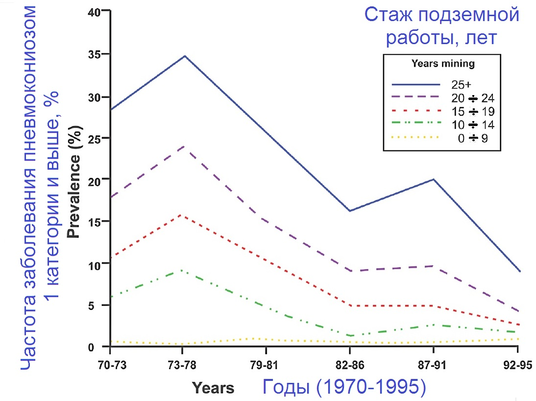 Figure 1. Prevalence of CWP category 1 or greater from the NIOSH Coal Workers’ X-ray Program from 1970–1995, by tenure in coal mining. (Figure 4–2 of the CCD (1)).